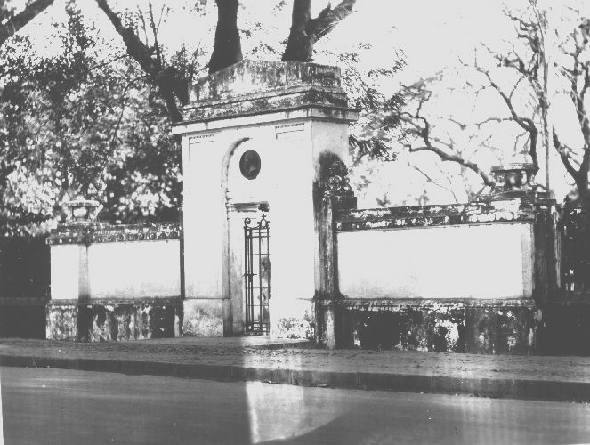 Source : (Image:Ronald Ross Monument.jpg) PHIL ID# 1440 Title: Ronald Ross Monument Content Provider(s): CDC/ Description: Monument to Ronald Ross, one of the discoverers of Malaria parasite. Source Library: PHIL Photo Credit